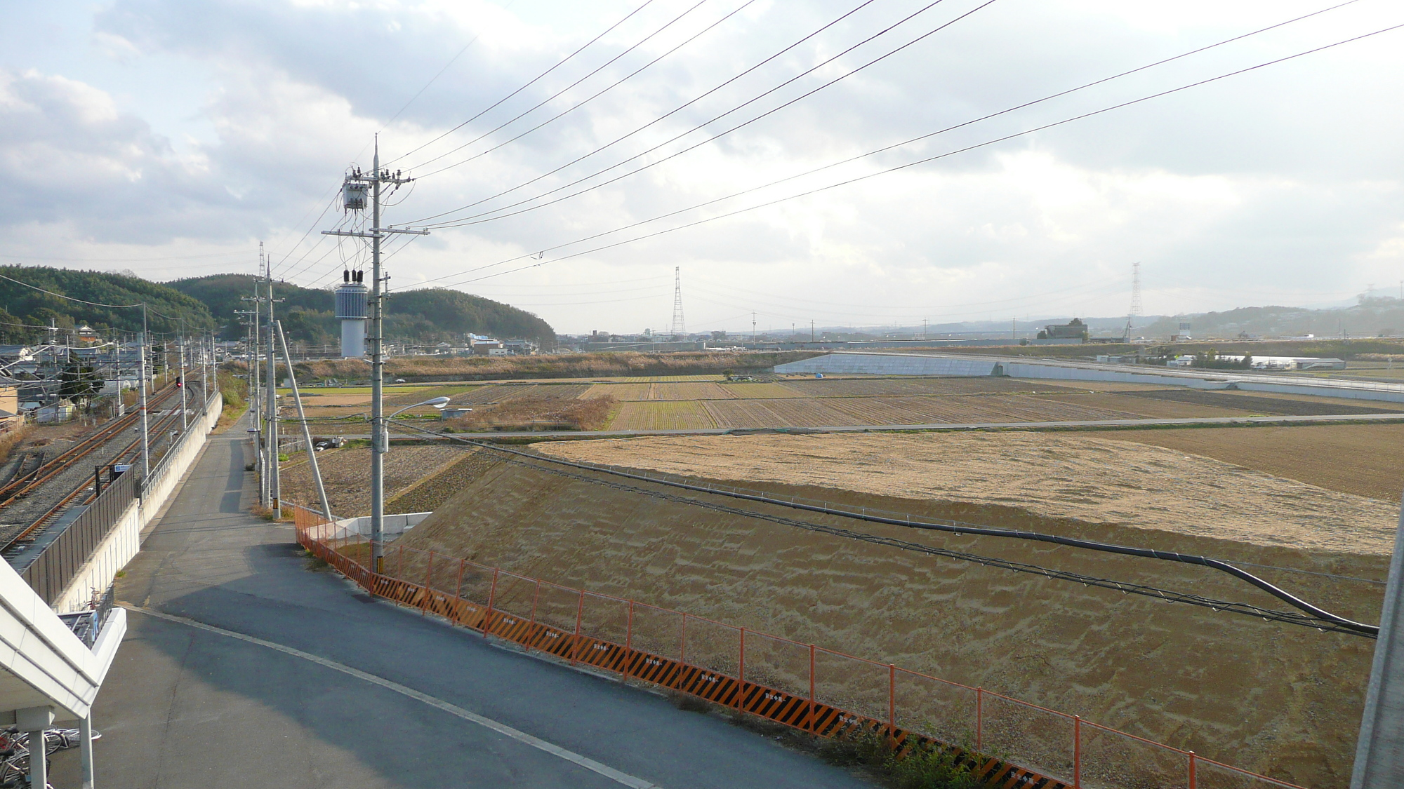 West Japan Railway Nara Line Yamashiro-Taga Station west side